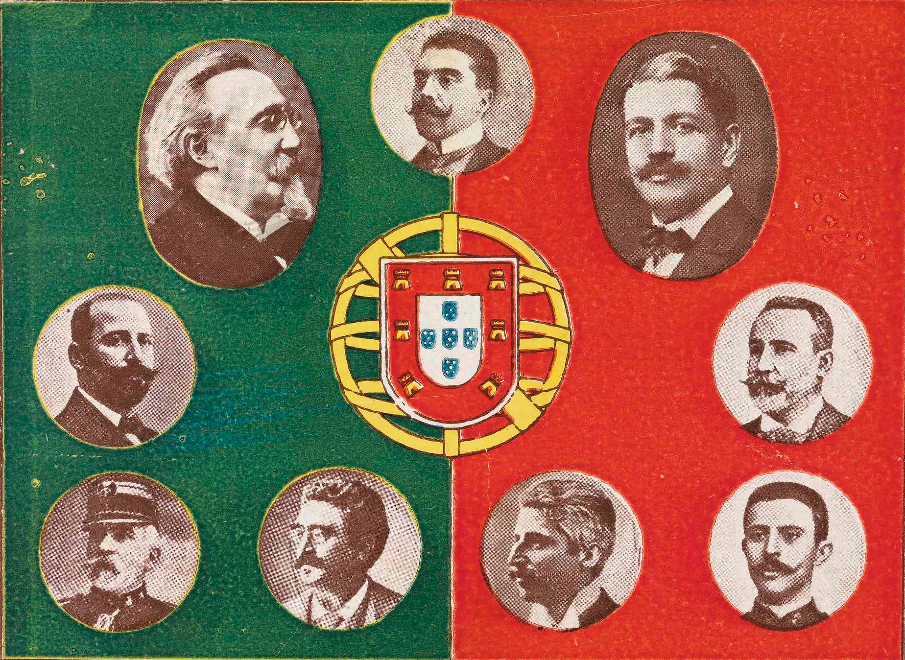 Postcard depiction of the João Chagas Cabinet, the first elected republican government in Portugal, 1911.